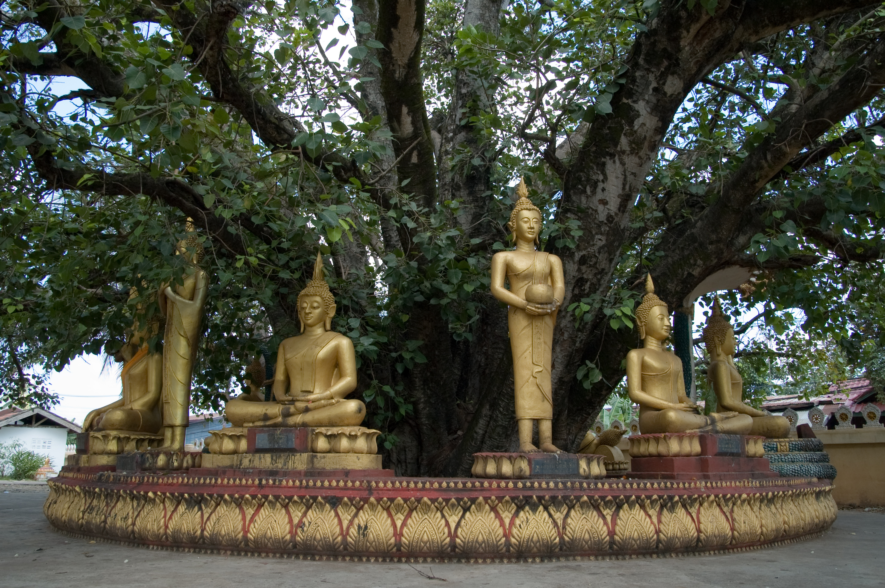 Buddha sculptures at the That Luang Stupa, Vientiane, Laos.